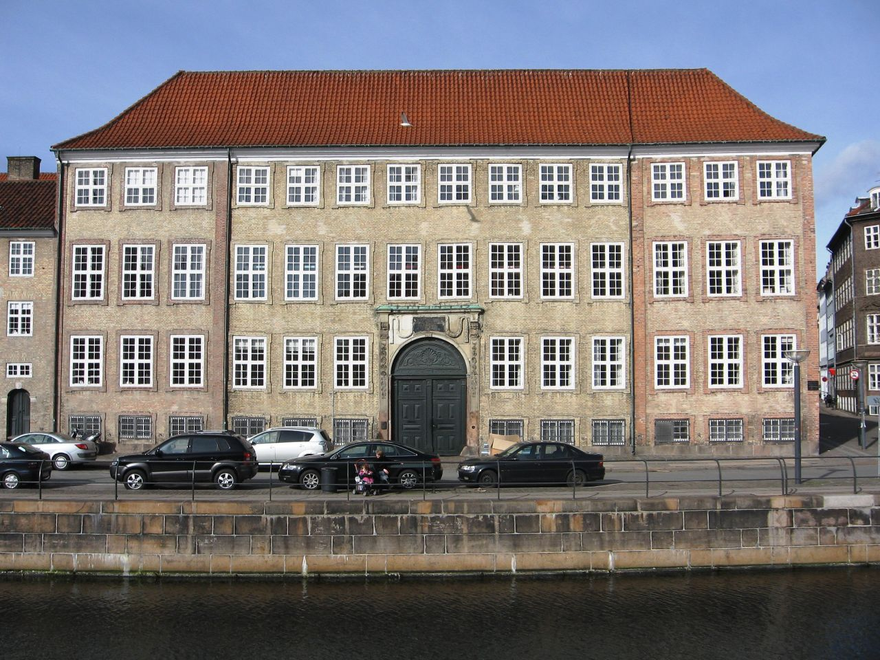 The building housing the Danish Ministry of Cultural Affairs in Copenhagen, Denmark